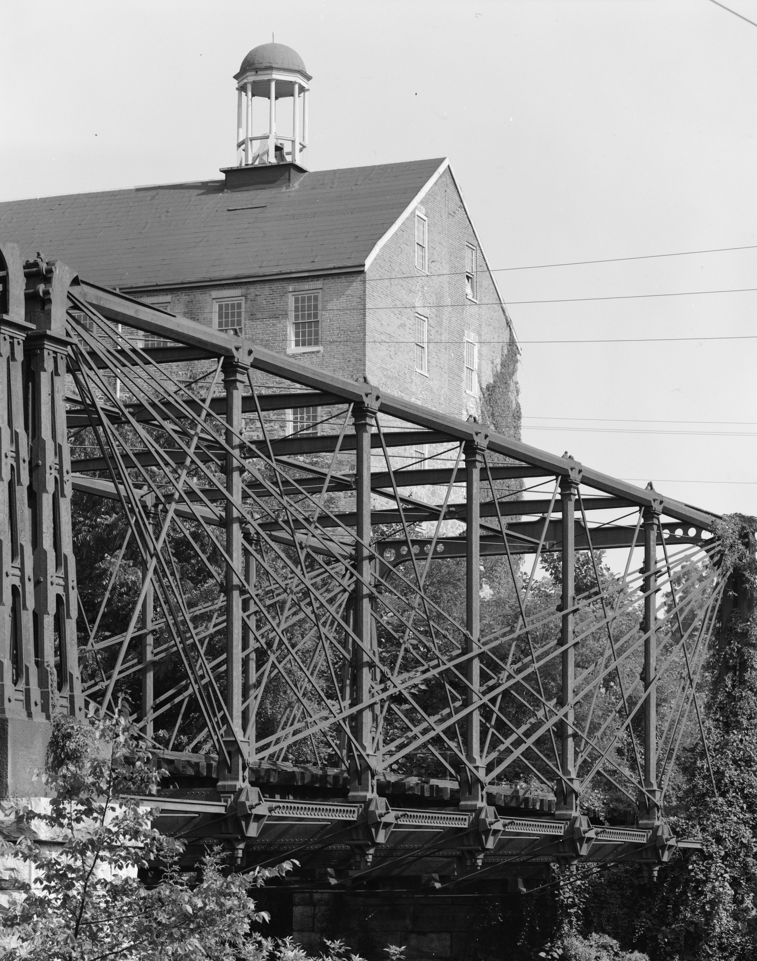 Bollman Truss Railroad Bridge at Savage, Maryland. General view of truss on east side of the bridge, with Savage Mill tower in the background. Image cropped.